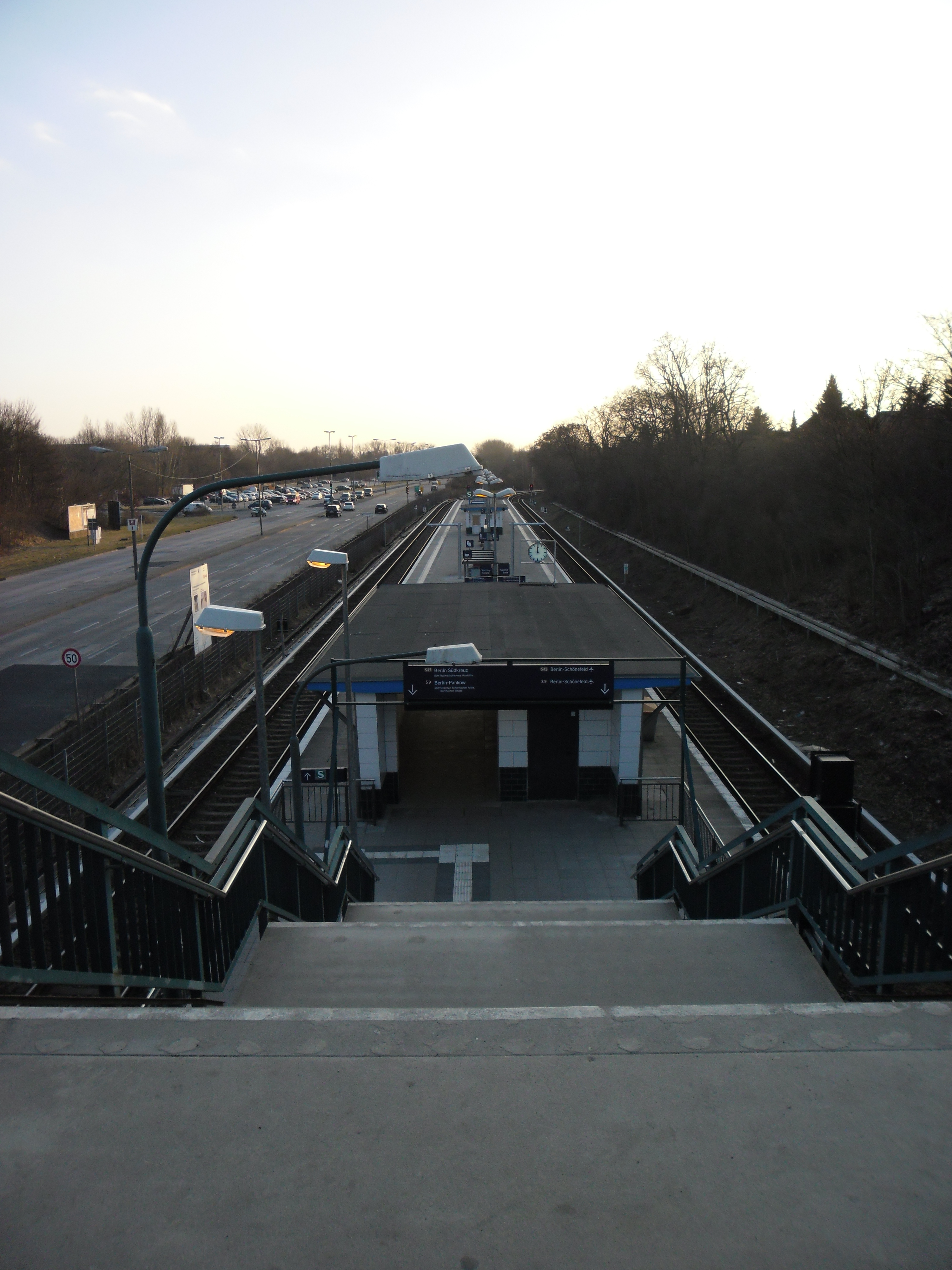 Altglienicke station